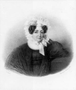 The portrait of Maria Anna Lager (1788-1866), mother of Franz Liszt